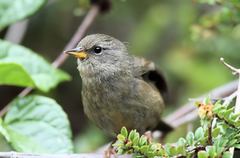 Peg-billed Finch - Costa Rica - 7-23-2012 by Brad Weinert